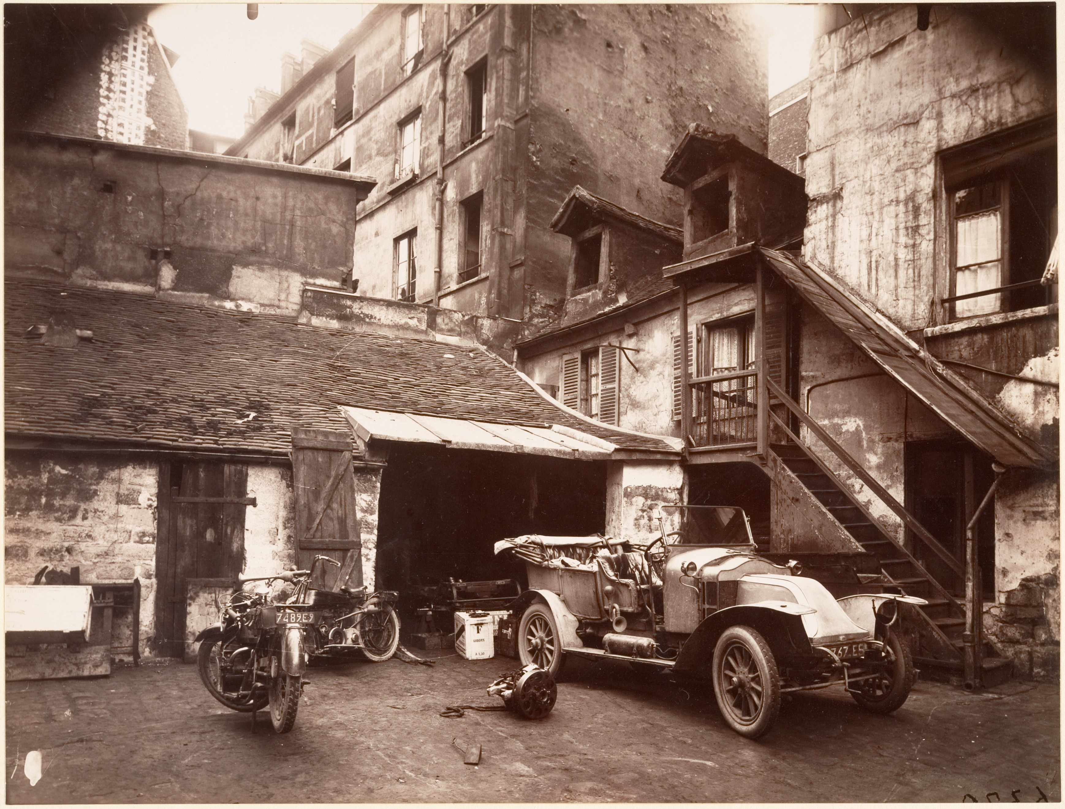 Cour, 7 rue de Valence